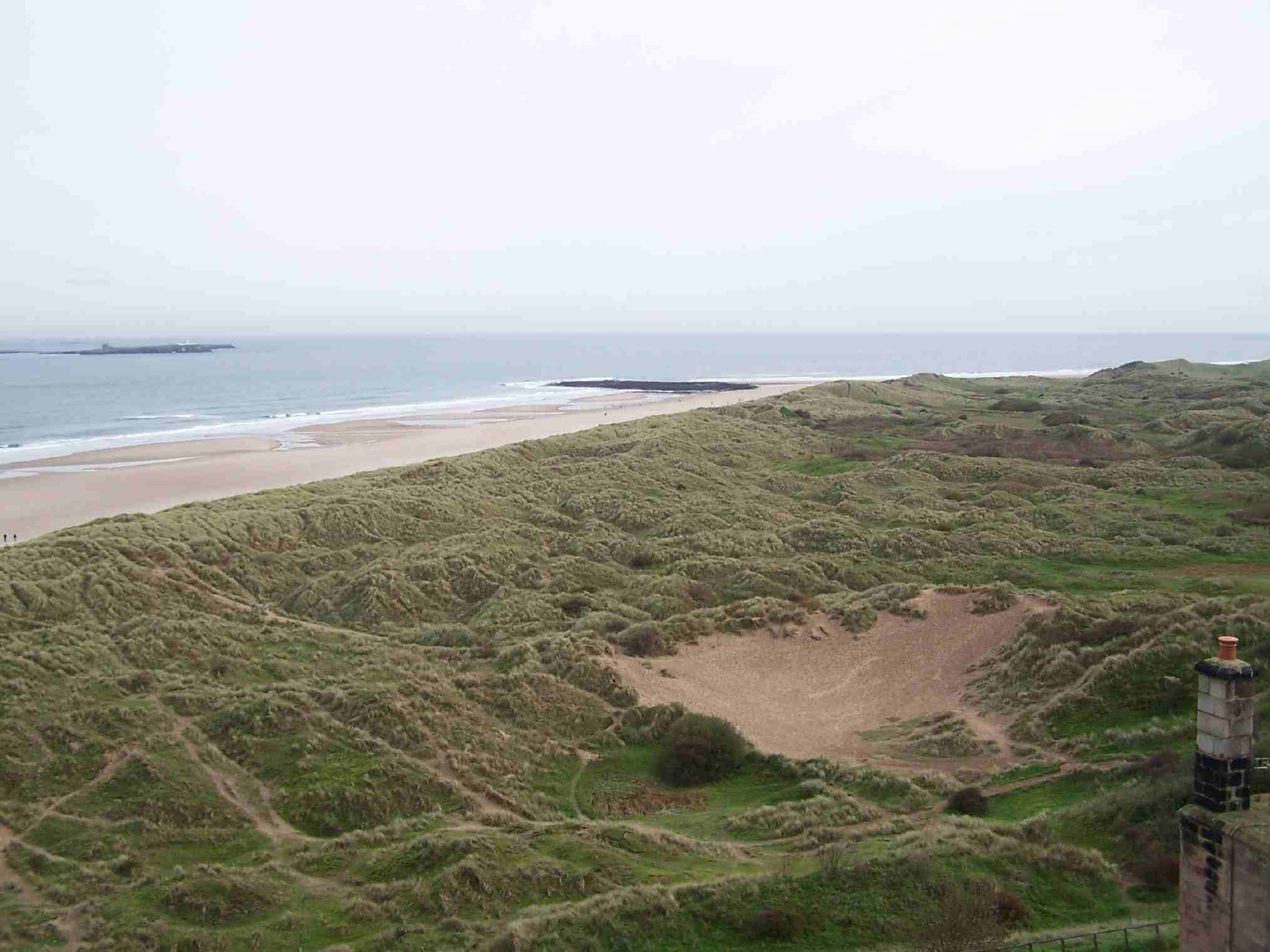 The southern area of Bamburgh Dunes seen from Bamburgh Castle Personal picture taken by Mick Knapton in October 2006